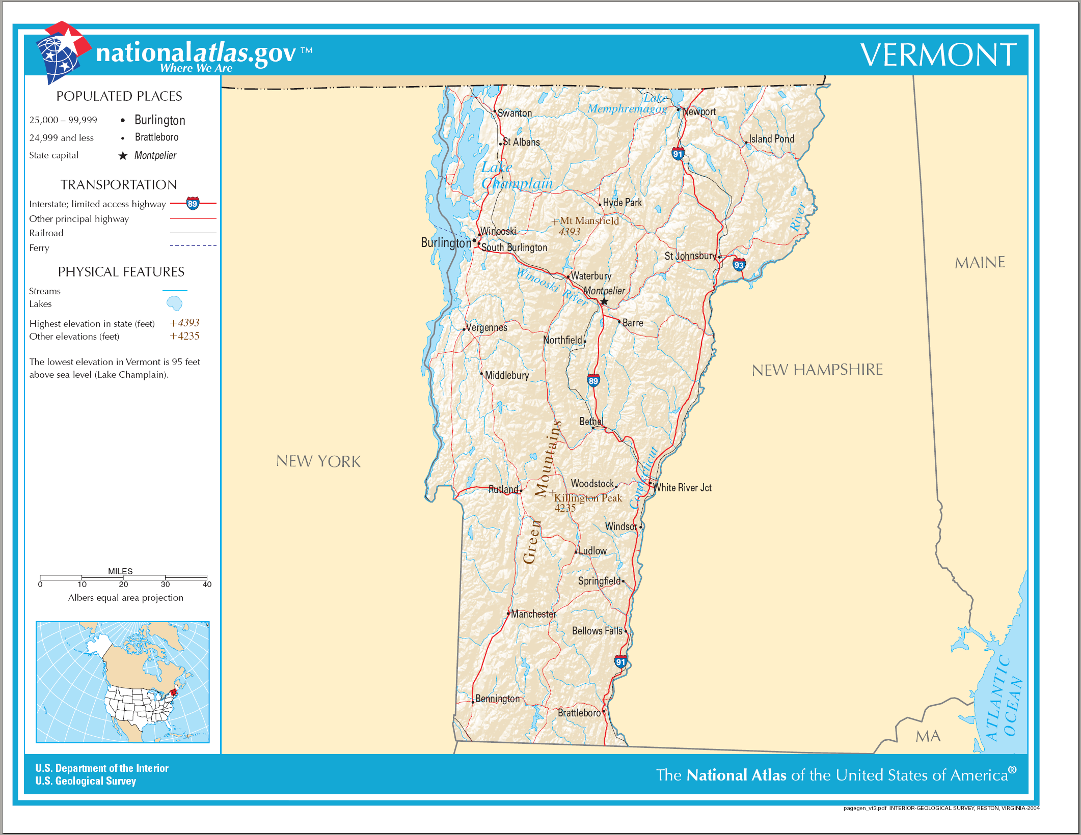 Map of Vermont.